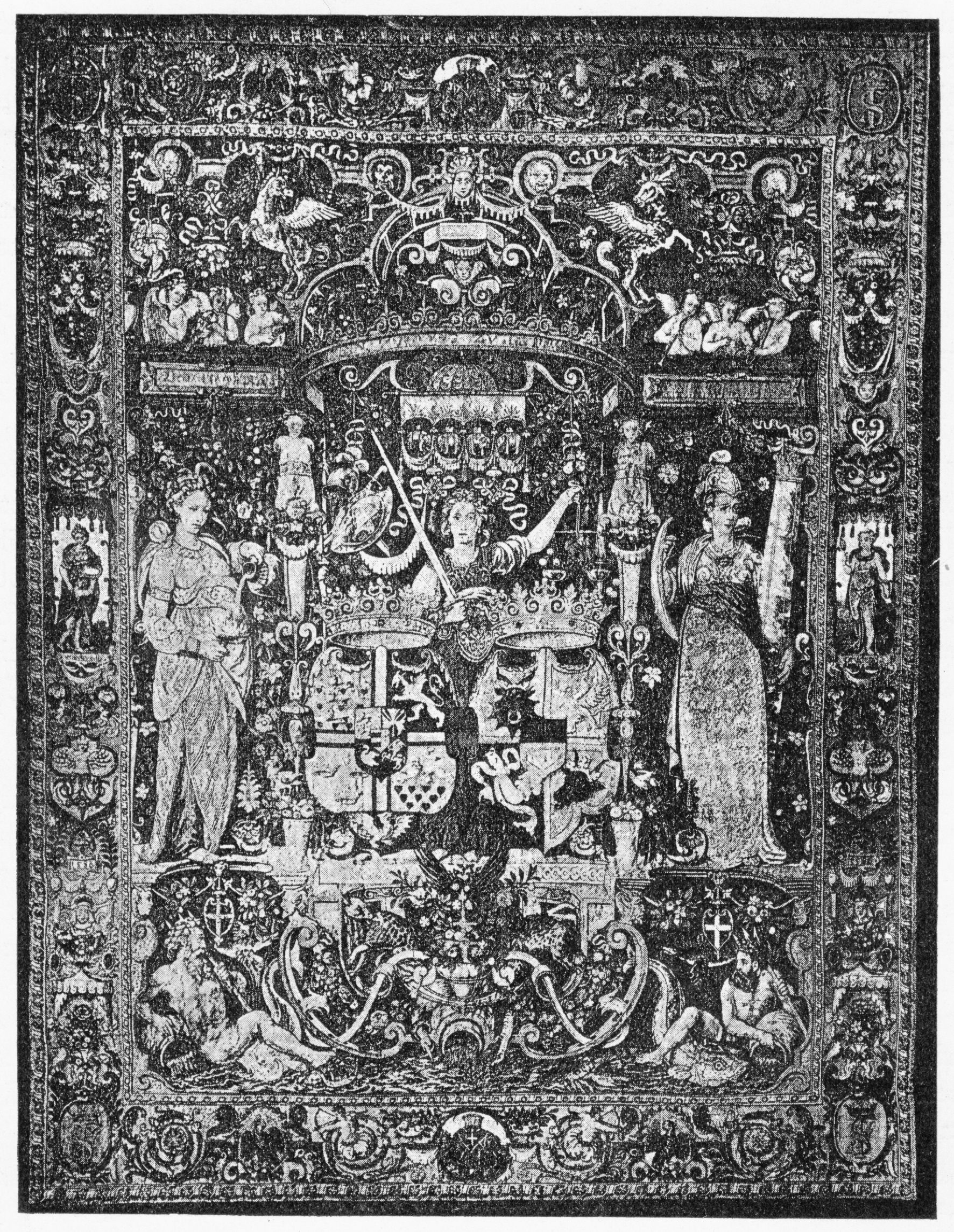 The canopy of estate of Frederick II of Denmark and Norway. Tapestry woven by Hans Knieper, 1586. The tapestry depicted here forms the back of the canopy. Swedish war booty from Kronborg Castle, Denmark, now located in the National Museum of Sweden, Stockholm.